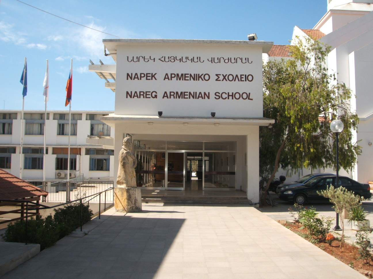 Picture of Nareg Nicosia school.